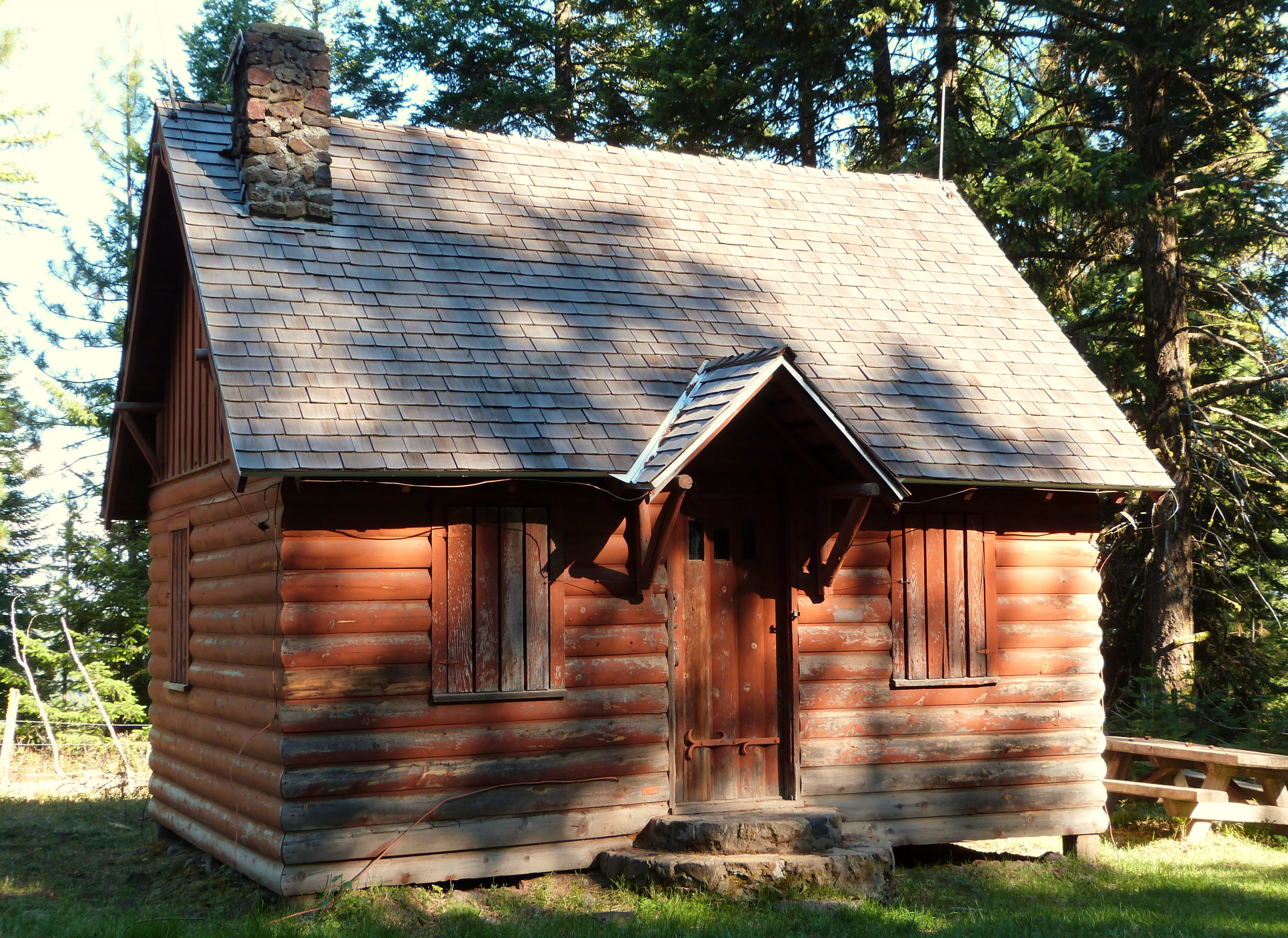 The historic Kirkland Lookout Ground House (built 1936), located on Forest Road 4650040 in the Wallowa–Whitman National Forest, Oregon, United States, is listed on the US National Register of Historic Places.